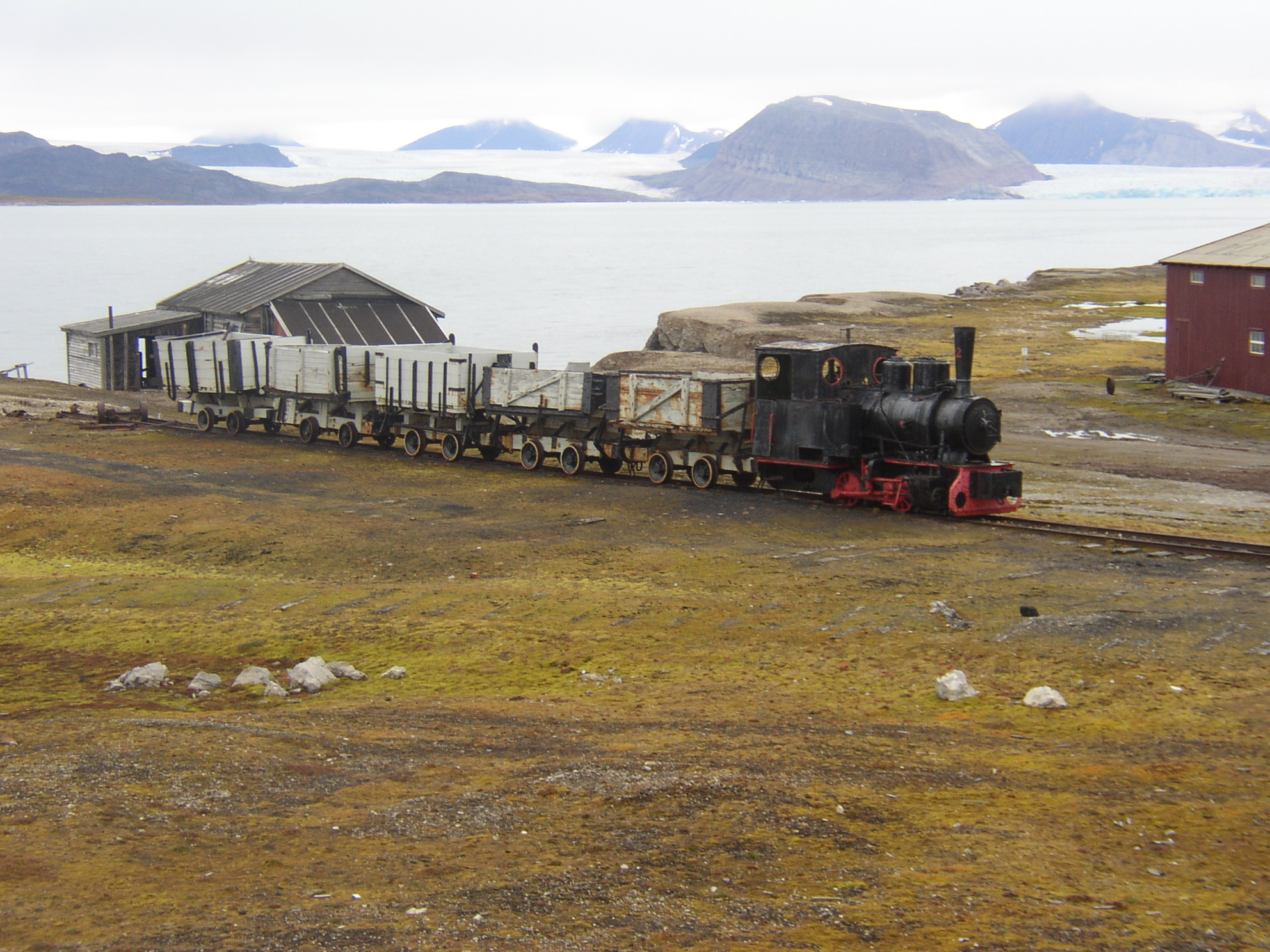 Old train in Ny-Ålesund, Spitsbergen/Svalbard. Kongsfjorden and its massive glaciers in the background